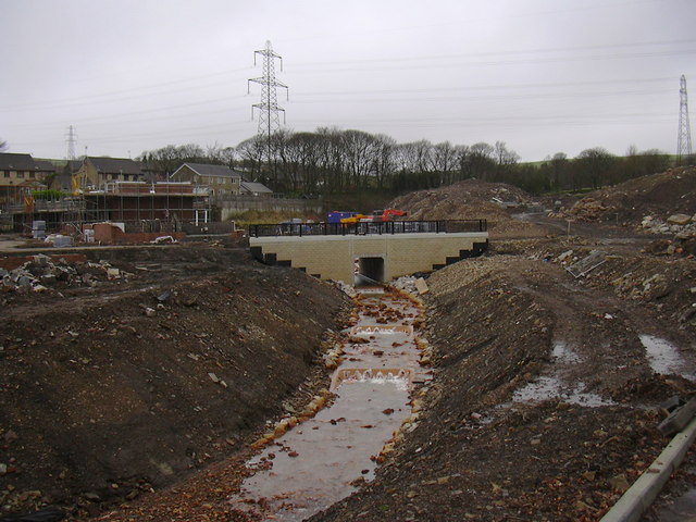 Irwell Springs The river is coloured from its source by iron deposits. Further downstream settling beds remove most of this pollution. Please for further photos and details.